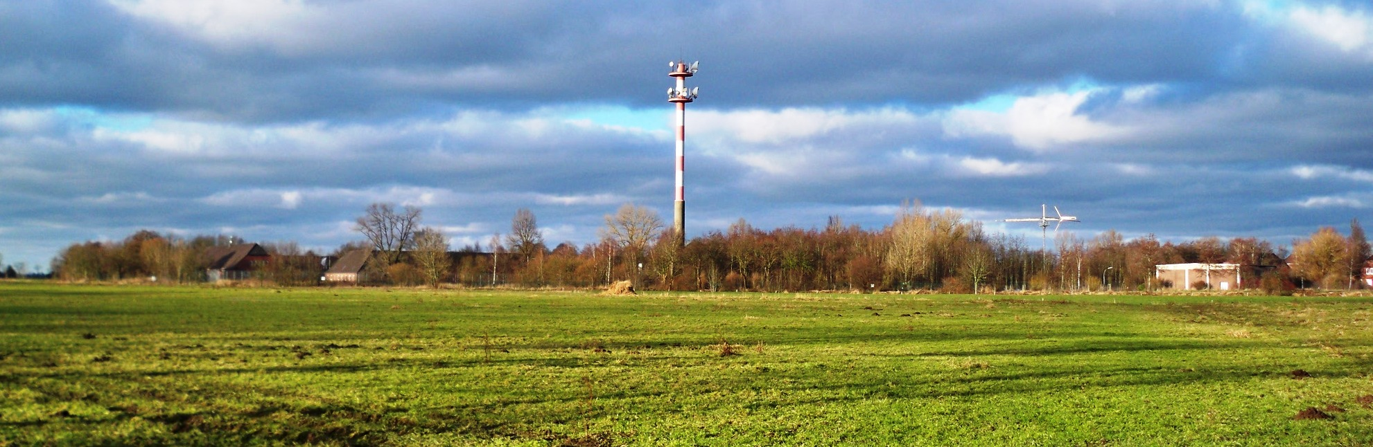 Military area and barracks Admiral-Armin-Zimmermann-Kaserne in vicinity of Wilhelmshaven